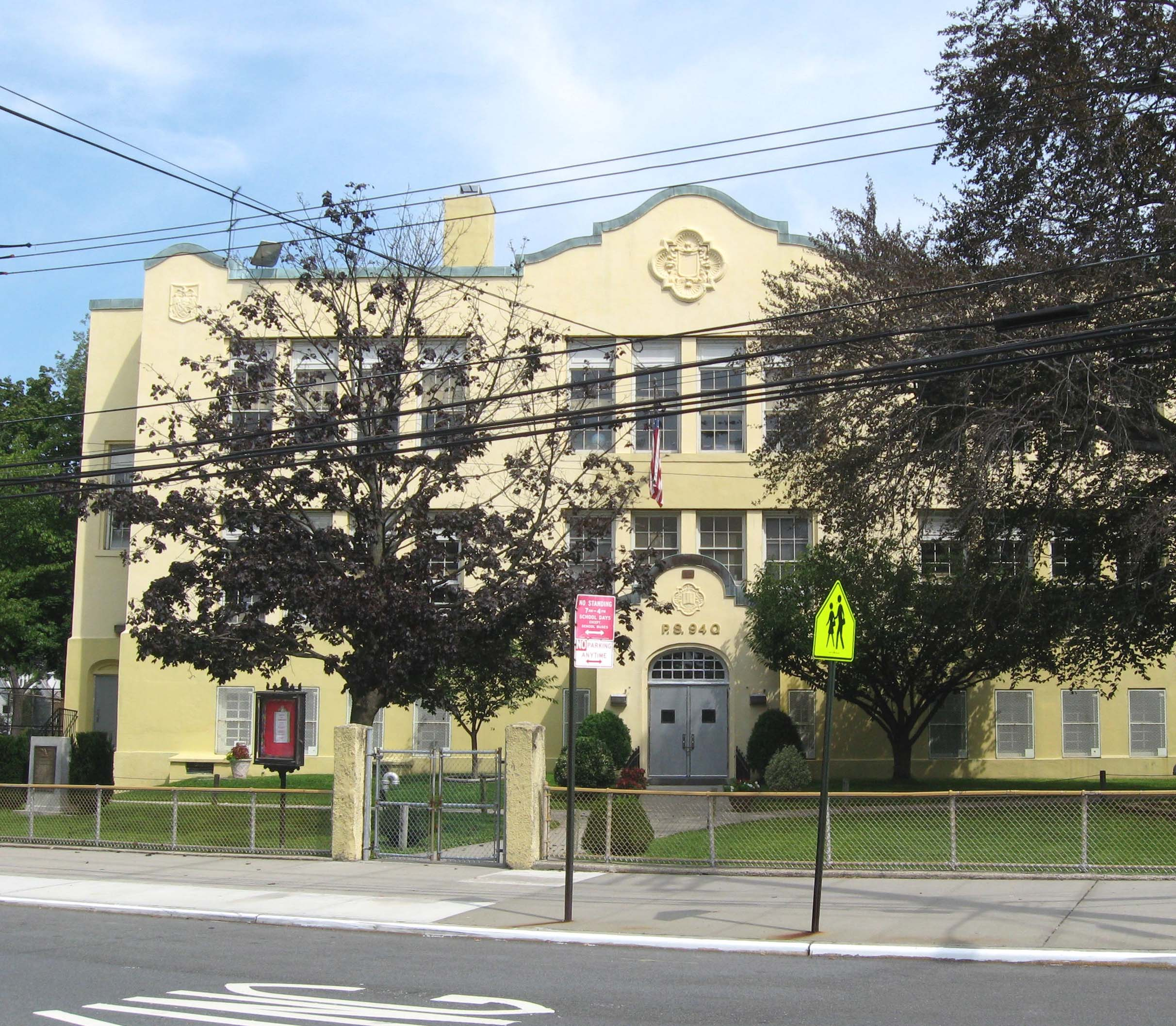 Looking east across Little Neck Parkway at PS 94 on 42nd Avenue, Little Neck, Queens